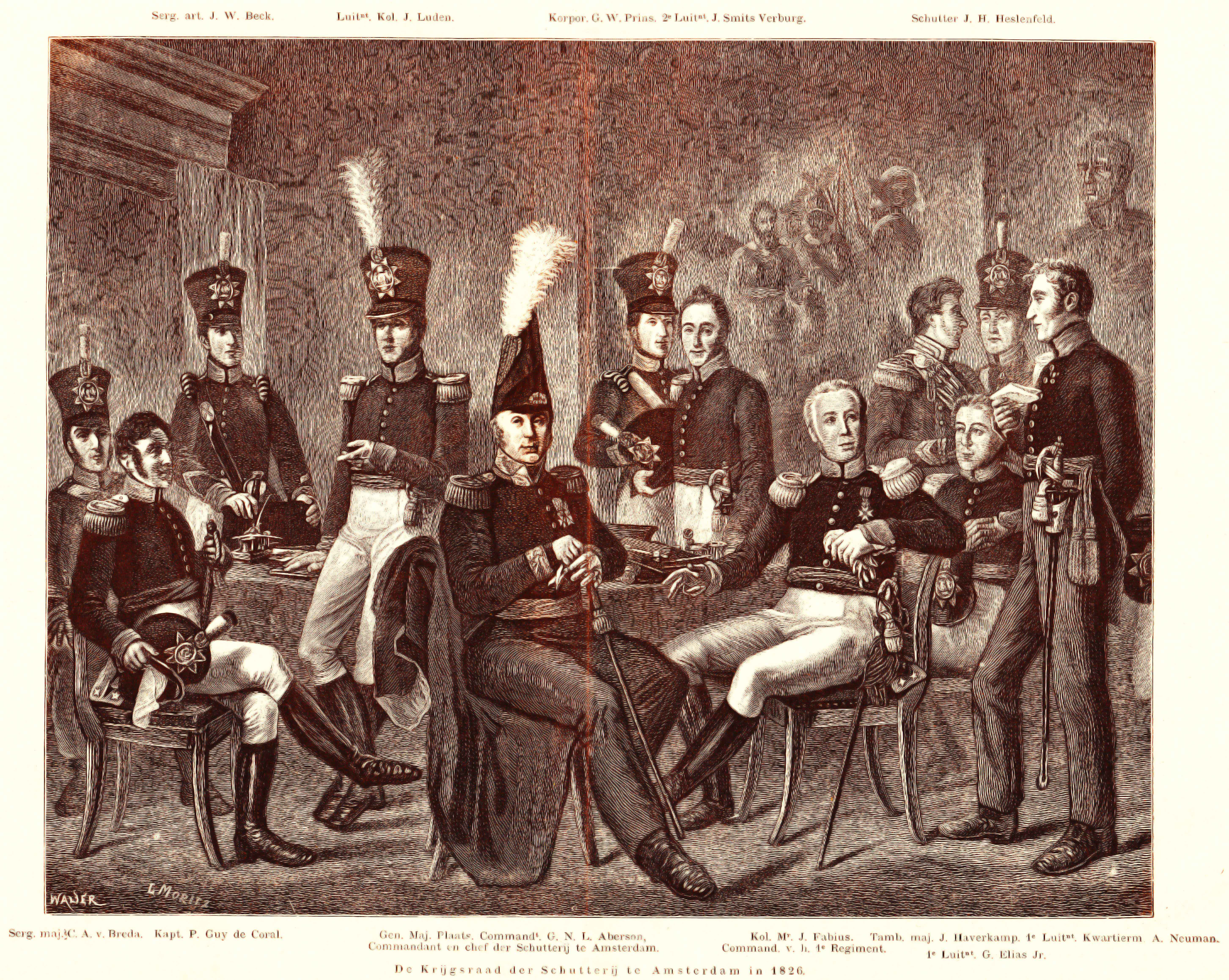 Krijgsraad der schutterij